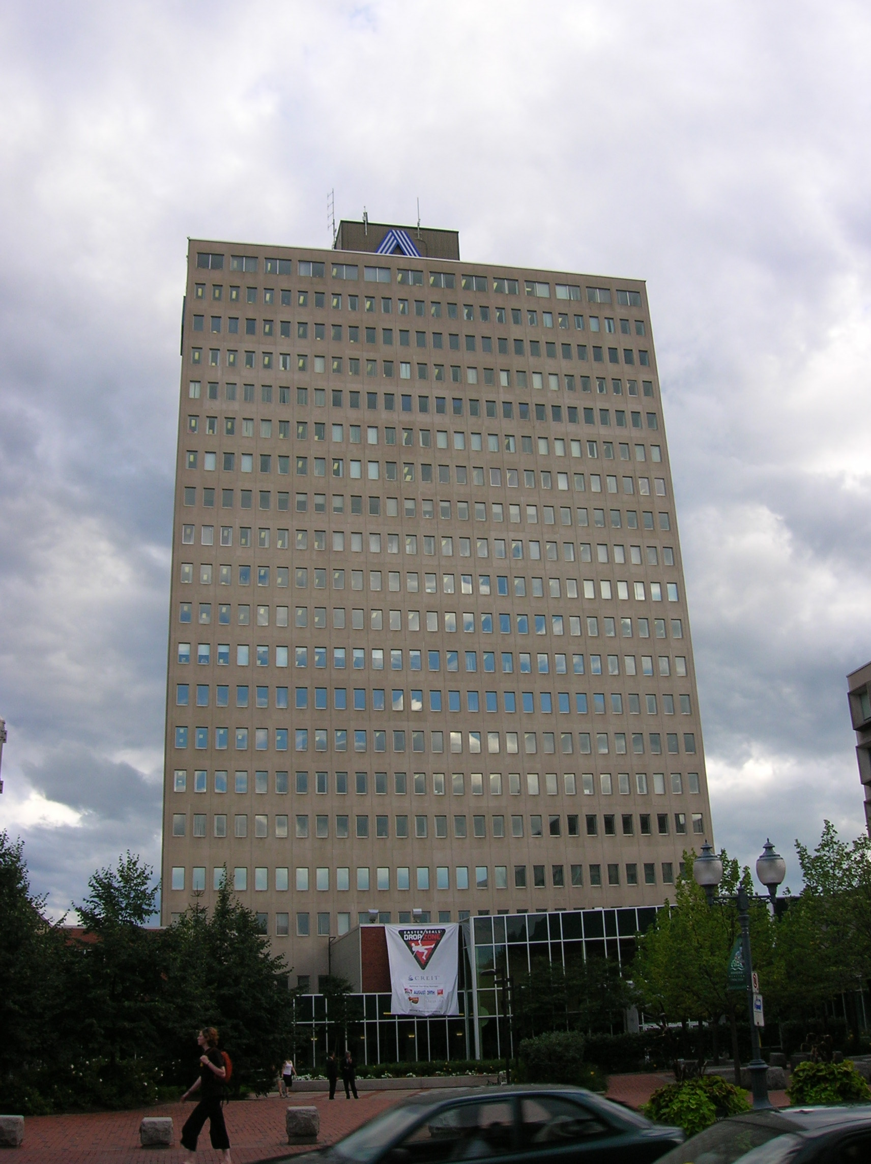 assomption place building in moncton